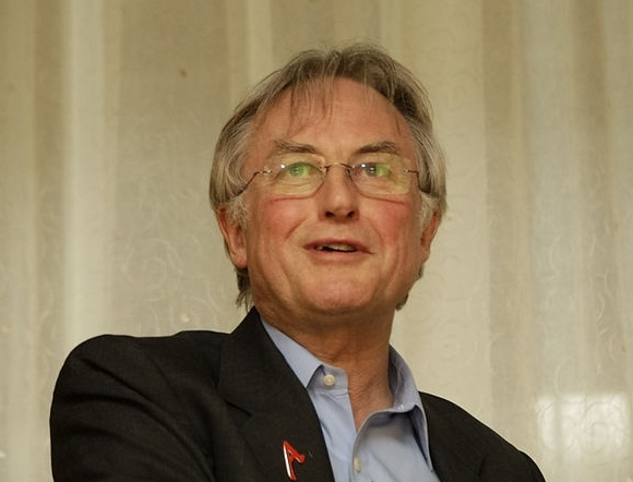 Richard Dawkins at the 34th American Atheists Conference